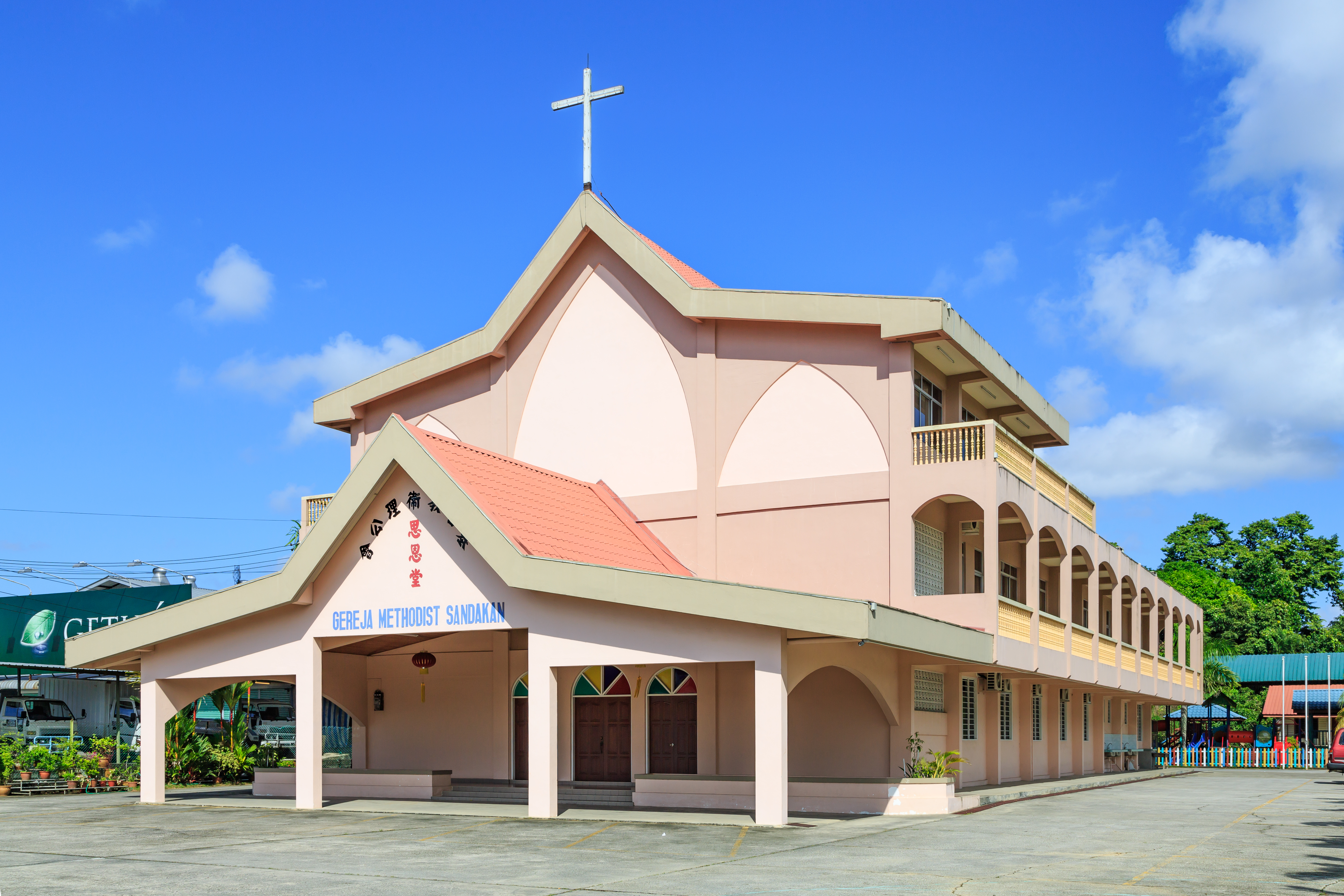 Sandakan, Sabah: Methodist Church